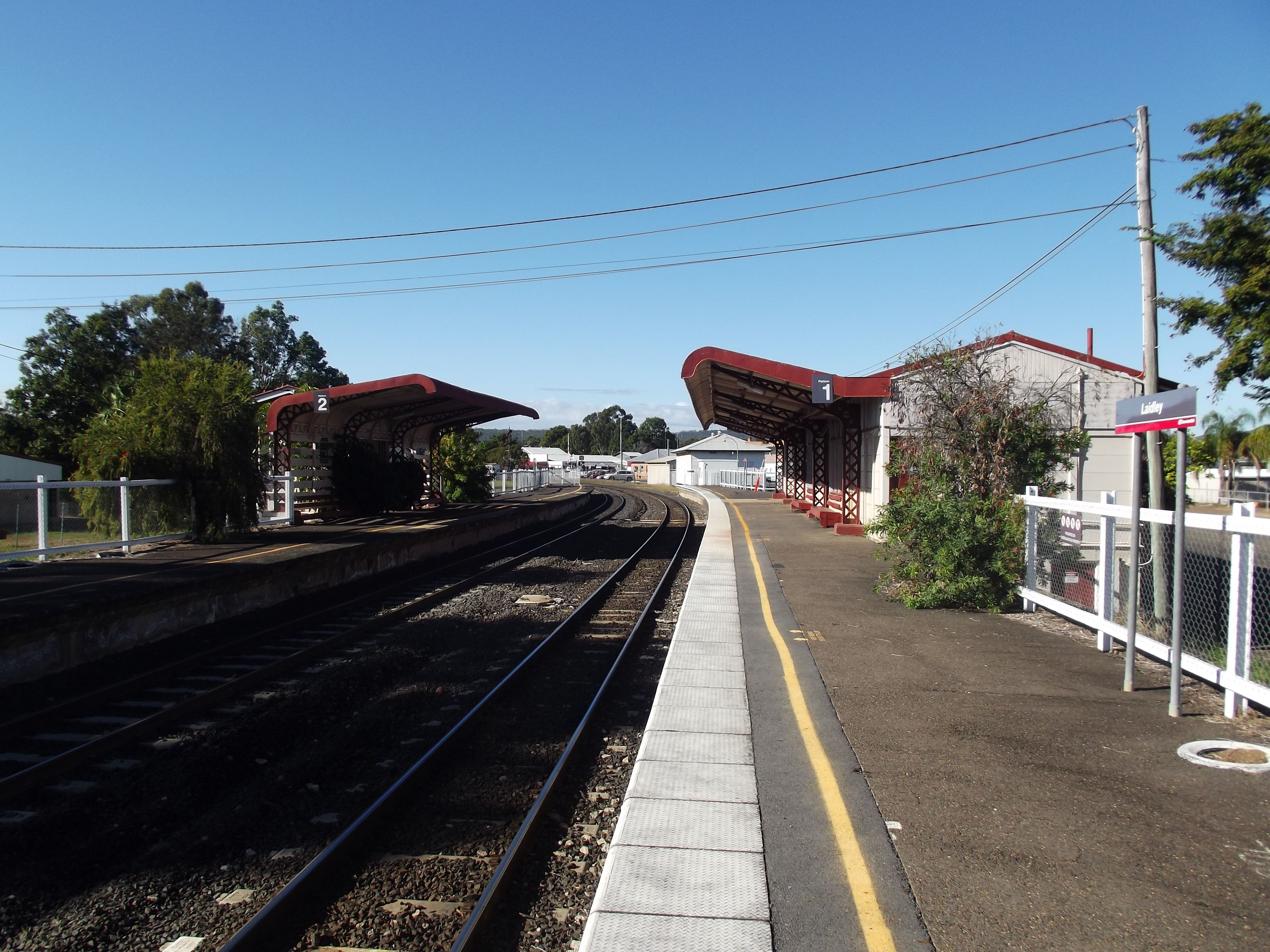 Laidley station on the western line.